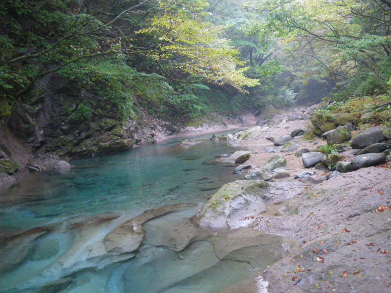 Kinomata River. Nasushiobara, Tochigi, Japan.